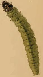 Stainton’s Natural History of the Tineina (1855–1873): Agonopterix cnicella